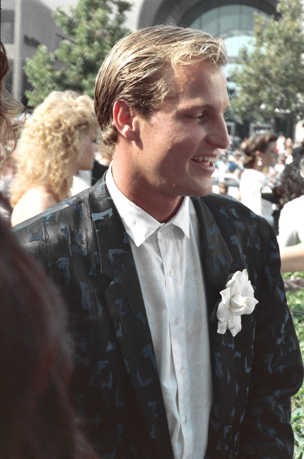 1988 Emmy Awards NOTE: Permission granted to copy, publish, broadcast or post any of my photos, but please credit "photo by Alan Light" if you can. Thanks. Scanned from the original 35MM film negative.